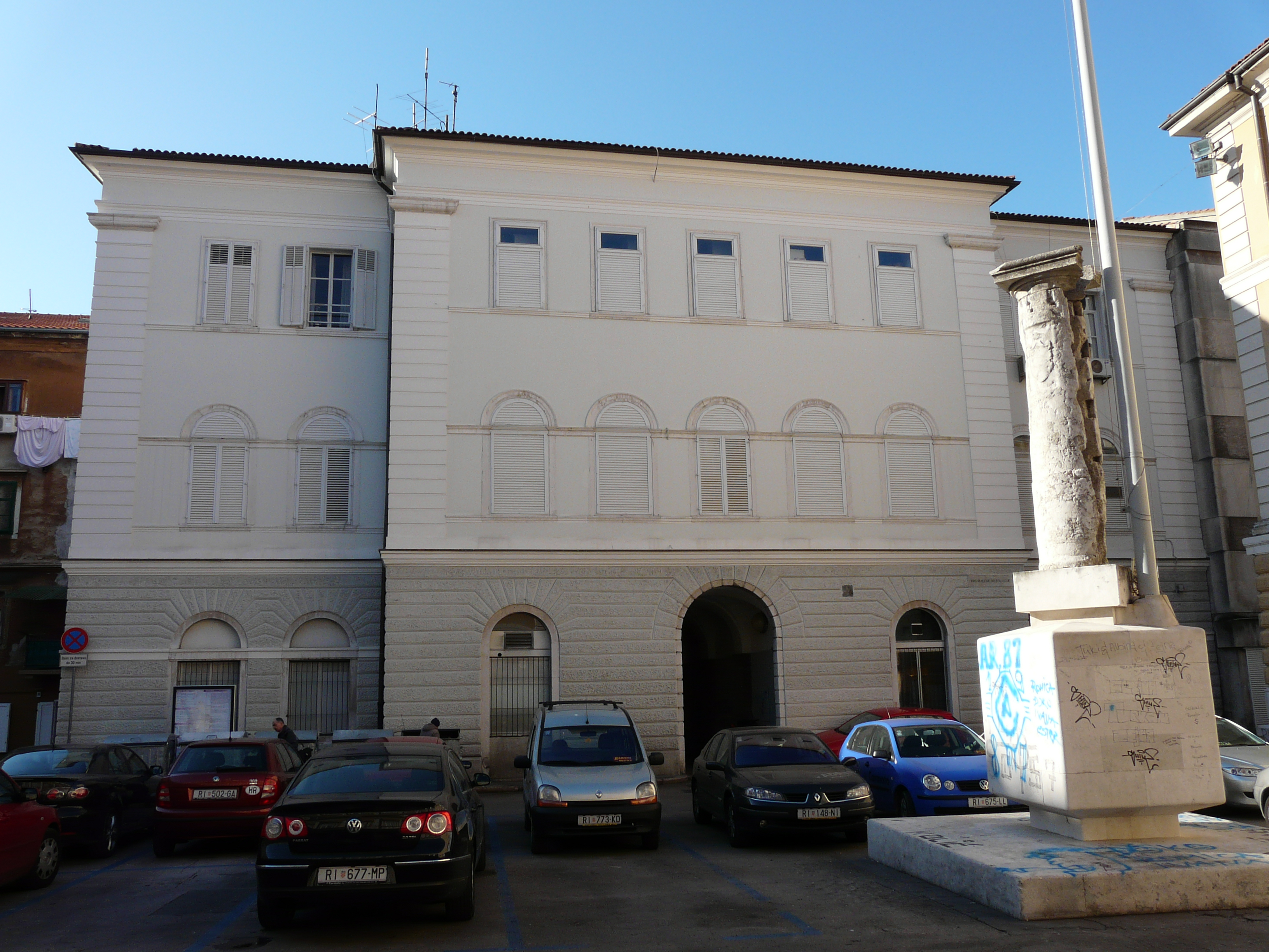 Back side of Radio Rijeka building on Korzo str in Rijeka.